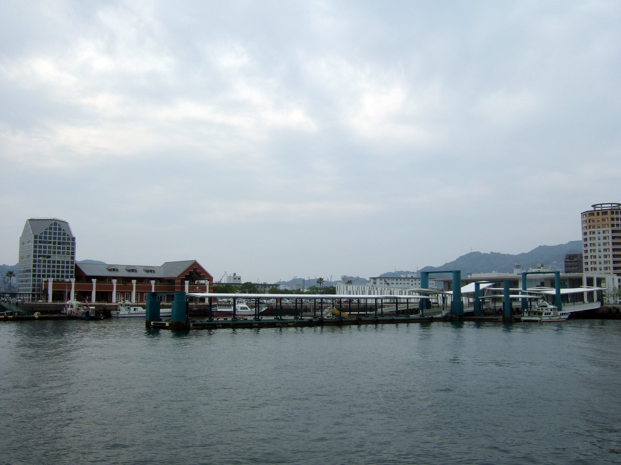 Sasebo Port(Yorodu and Kujirase Wharf)